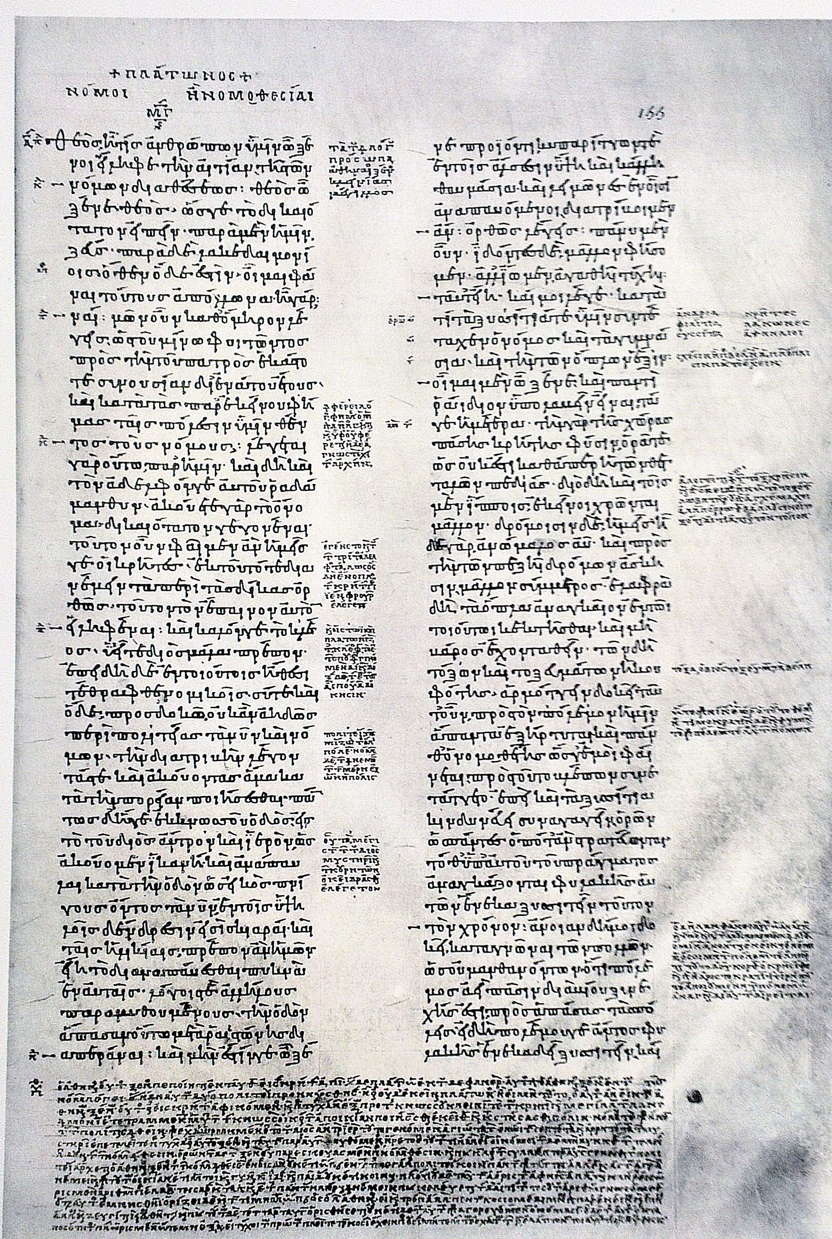 Page of the Codex Parisinus graecus 1807. Dialogue Nomoi.